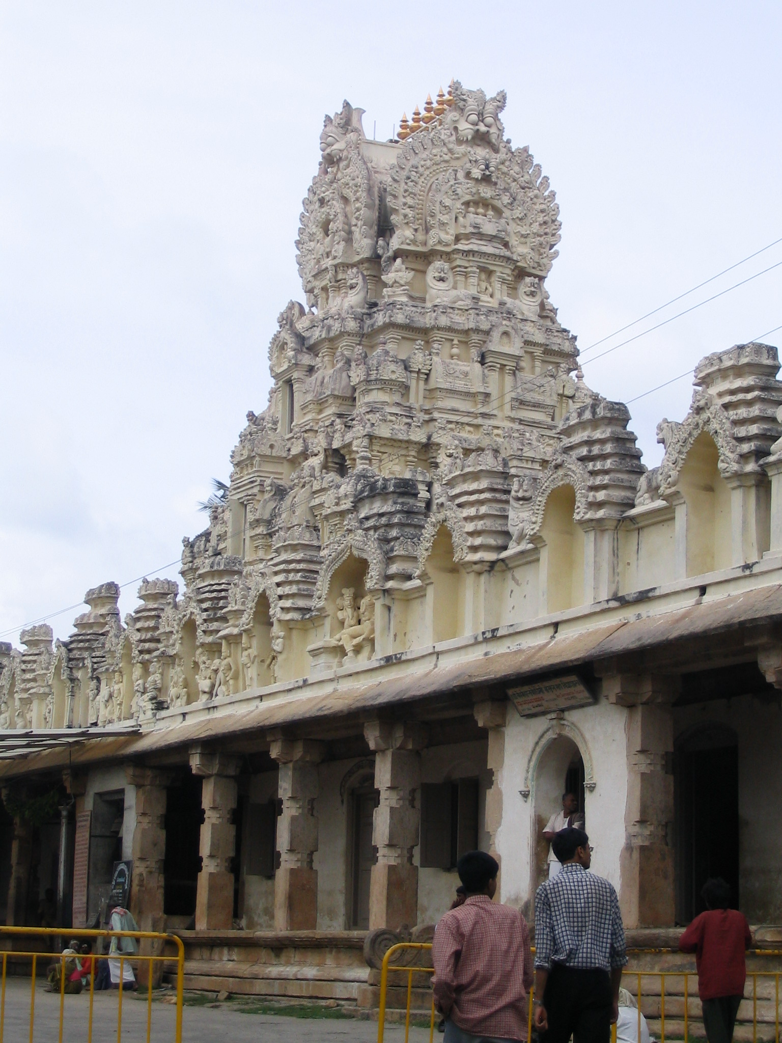 The view of the Gopura of Chaluva Narayanaswamy Temple from the entrance. The temple is at the dead-end of the only main road of the scenic town. As they say "All roads reach the God"